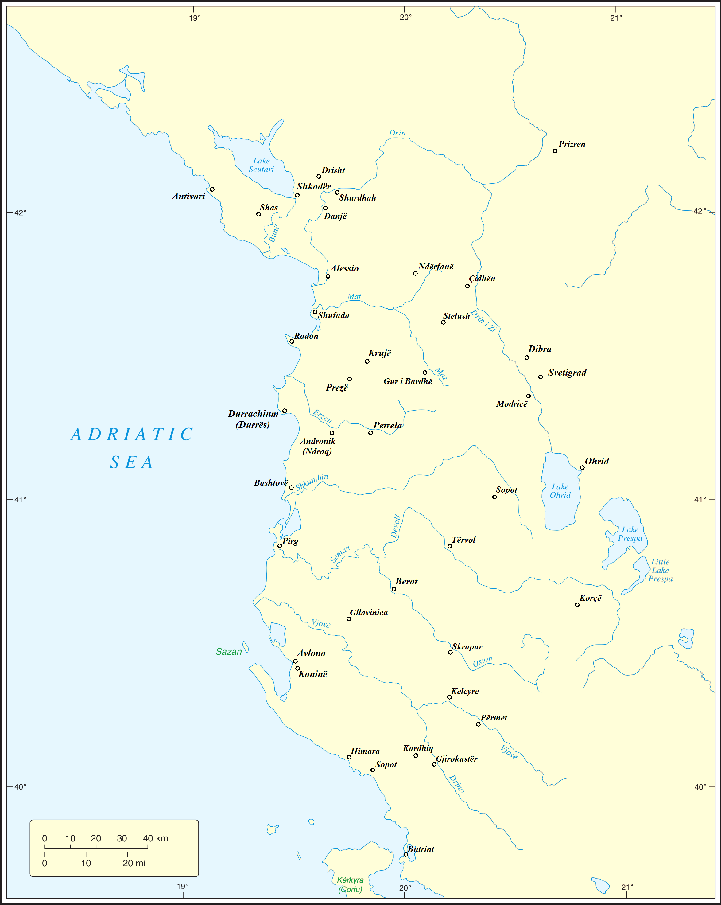 This work is based on "Historia e popullit shqiptar në katër vëllime" Anamali, Skënder and Prifti, Kristaq. Botimet Toena, 2002, ISBN 9992716223. There are main cities and castles mentioned in the sources.